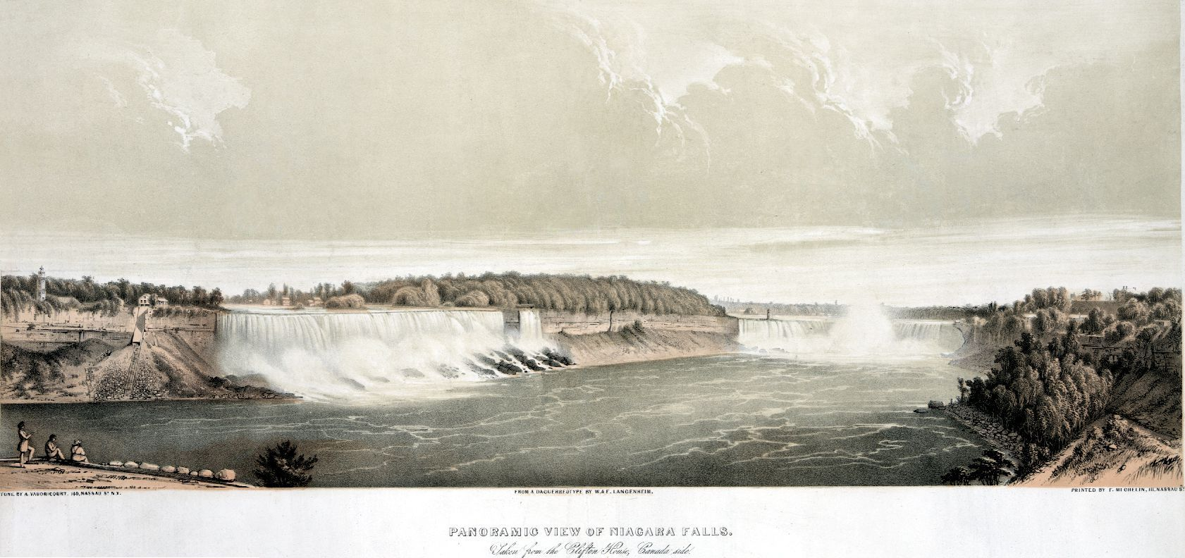 Panoramic View of Niagara Falls, from the Clifton House, Canada side / stone (lithograph) by A. Vaudricourt, from a daguerreotype by W.& F. Langenheim ; printed by F. Michelin.Date Created/Published: [New York] : s.n. , c1845 (111 Nassau St. : Printed by F. Michelin